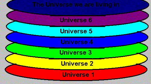 level II Multiverse, Every disk is a bubble universe(Universe 1 to Universe 6 are different bubbles,our universe is just one of the bubbles.